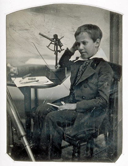 Daguerreotype of Truman Henry Safford